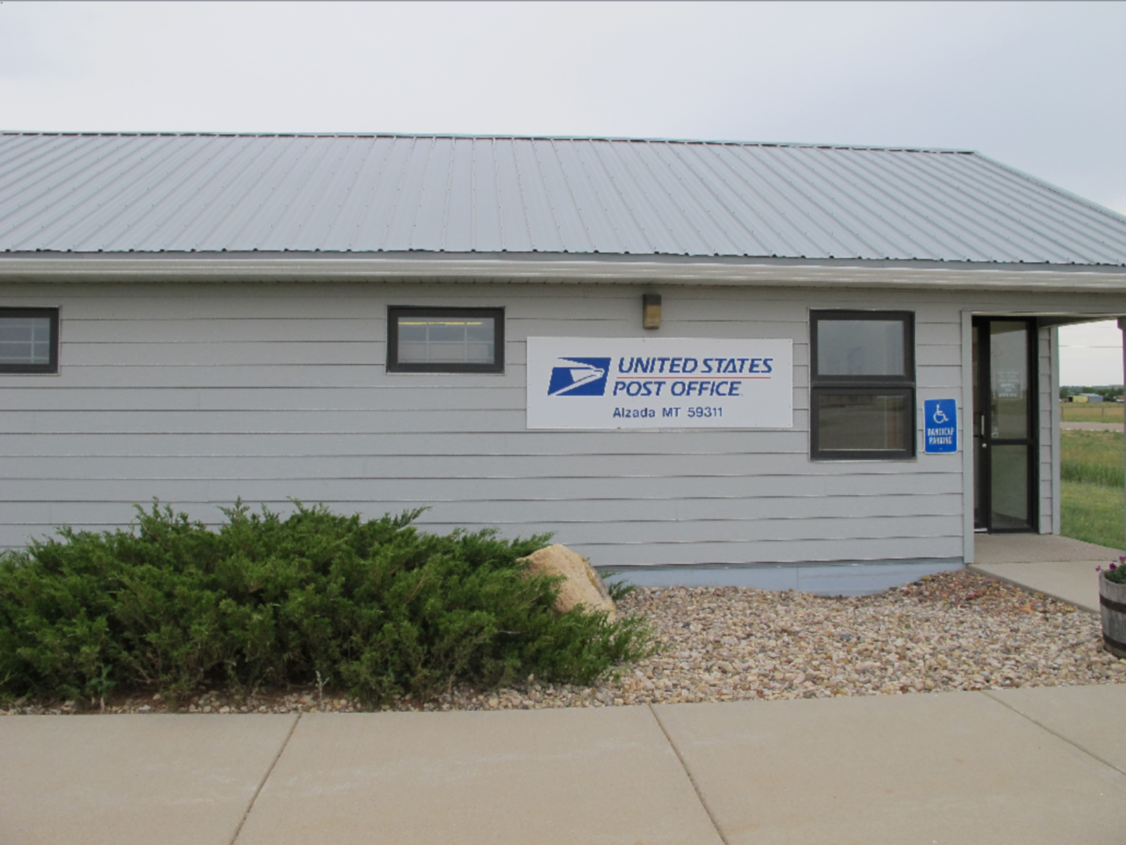 US Post Office located in the Southeast corner of Montana